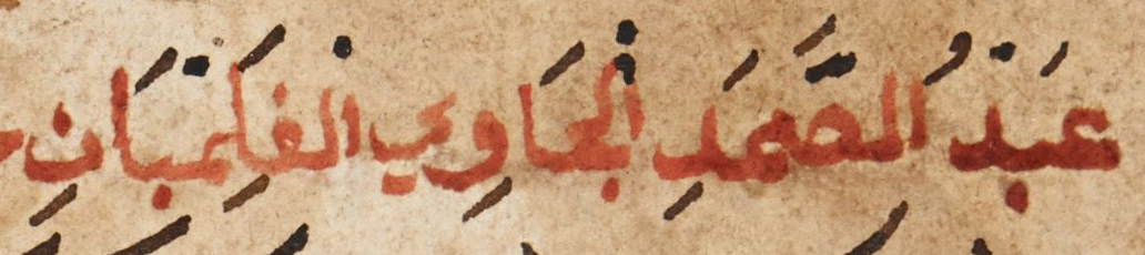 ‘Abd al-Ṣamad al-Jāwī al-Falimbānī, ‘Abdul Samad, the Jawi [i.e. Muslim from Southeast Asia], from Palembang’: the name of the author as given in a manuscript of his work Hidāyat al-sālikīn . British Library, Or. 16604, f. 2r